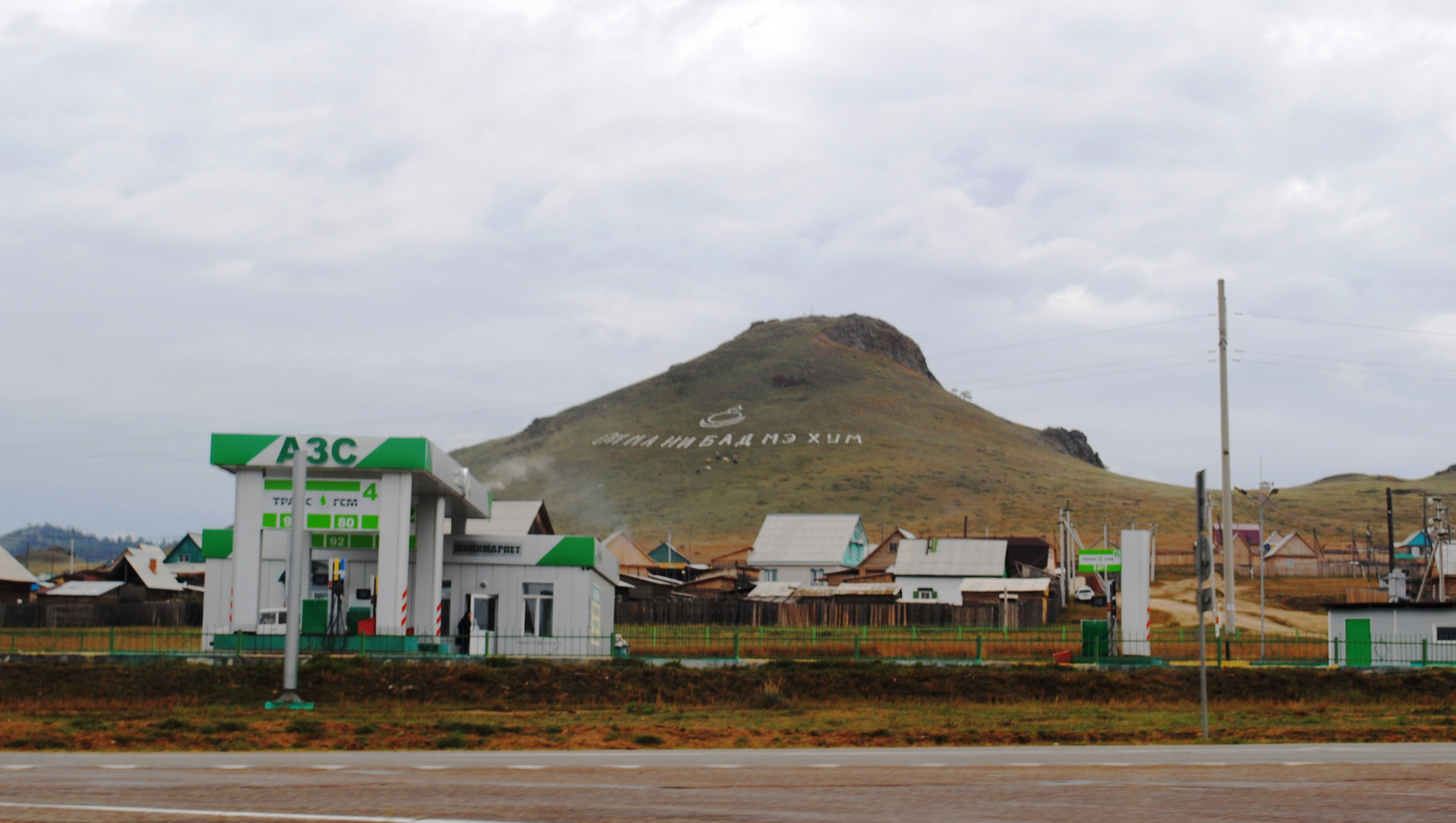 Om mani padme hum